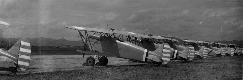 Kawasaki Ki-10 dressed as I-15 for the movie "Moyuru ōzora".